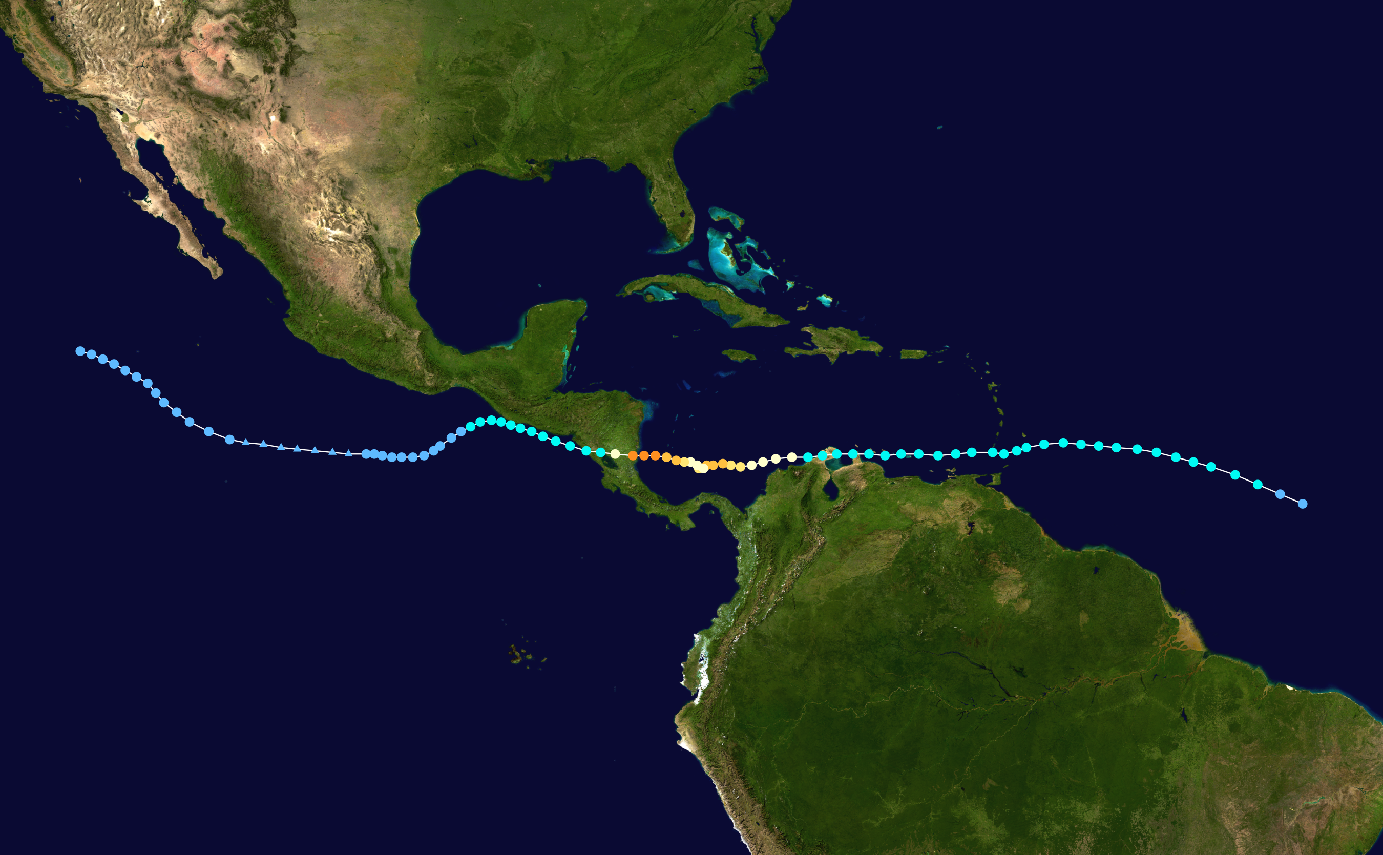 Hurricane Joan-Miriam (1988) track. Uses the color scheme from the Saffir-Simpson Hurricane Scale.